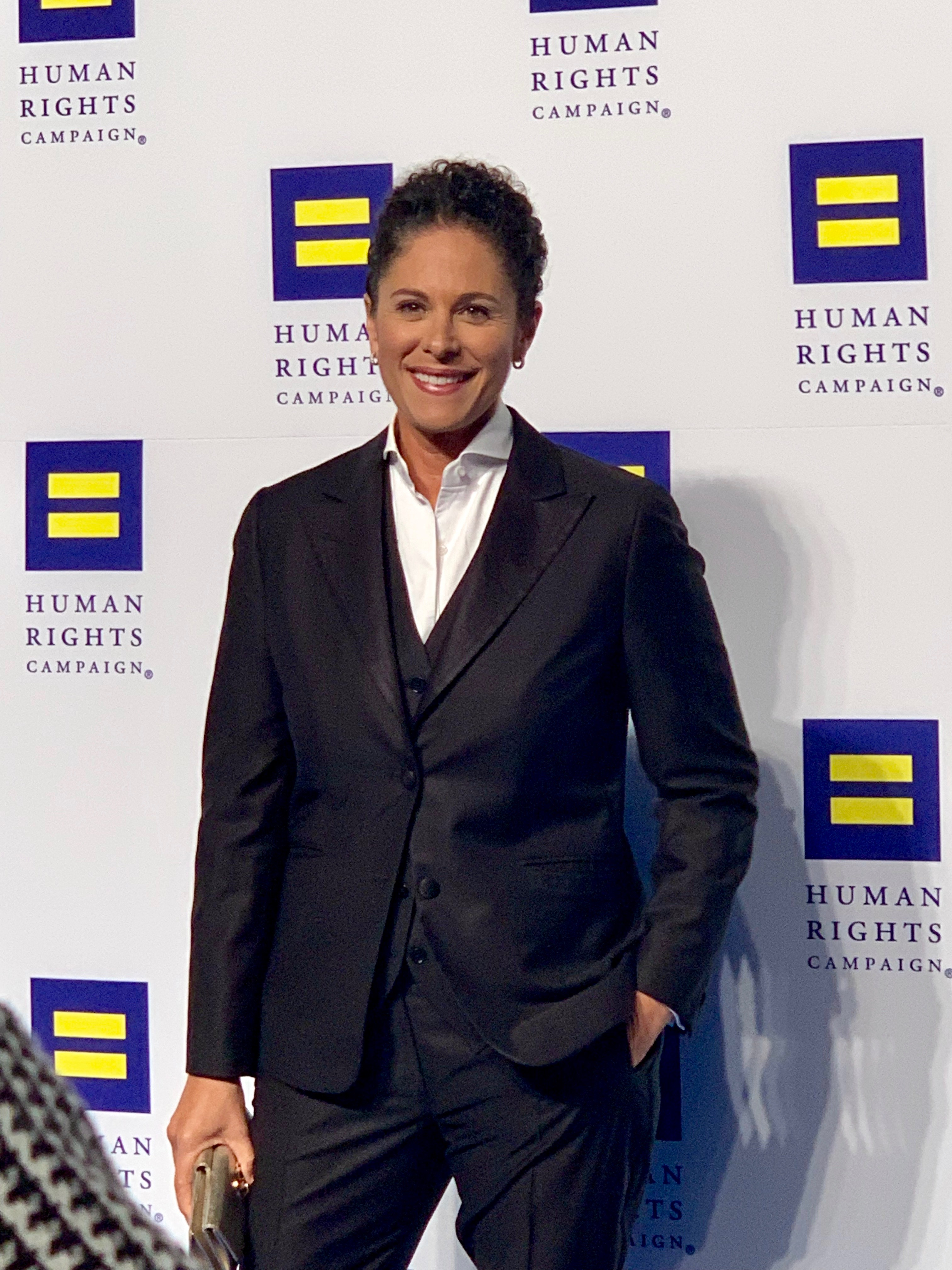 Dana Goldberg at HRC Gala (2020)